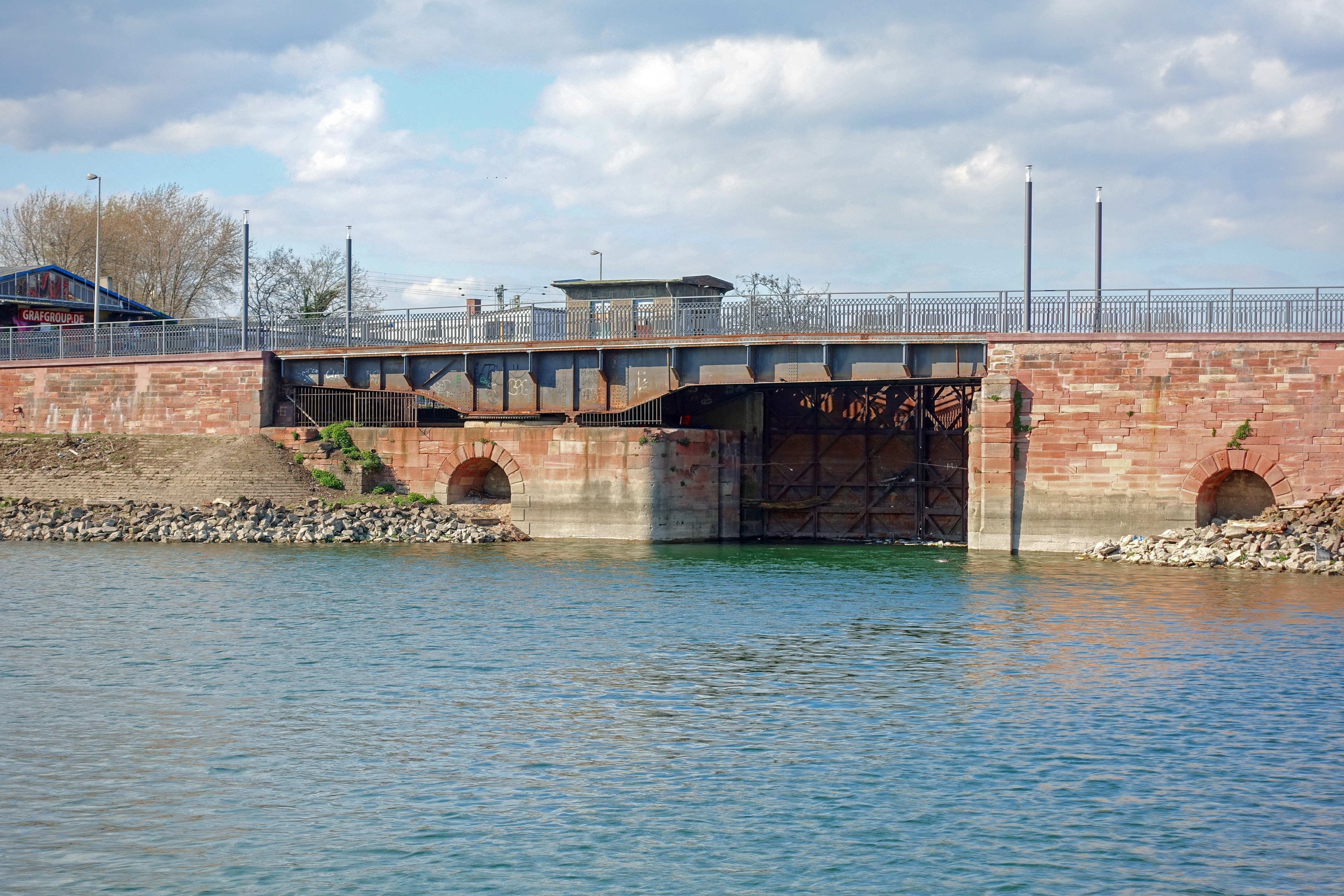 Teufelsbrücke ("Devil's Bridge"), Mannheim - swing bridge with pivot on the abutment and lock gate, situation after renovation 2015